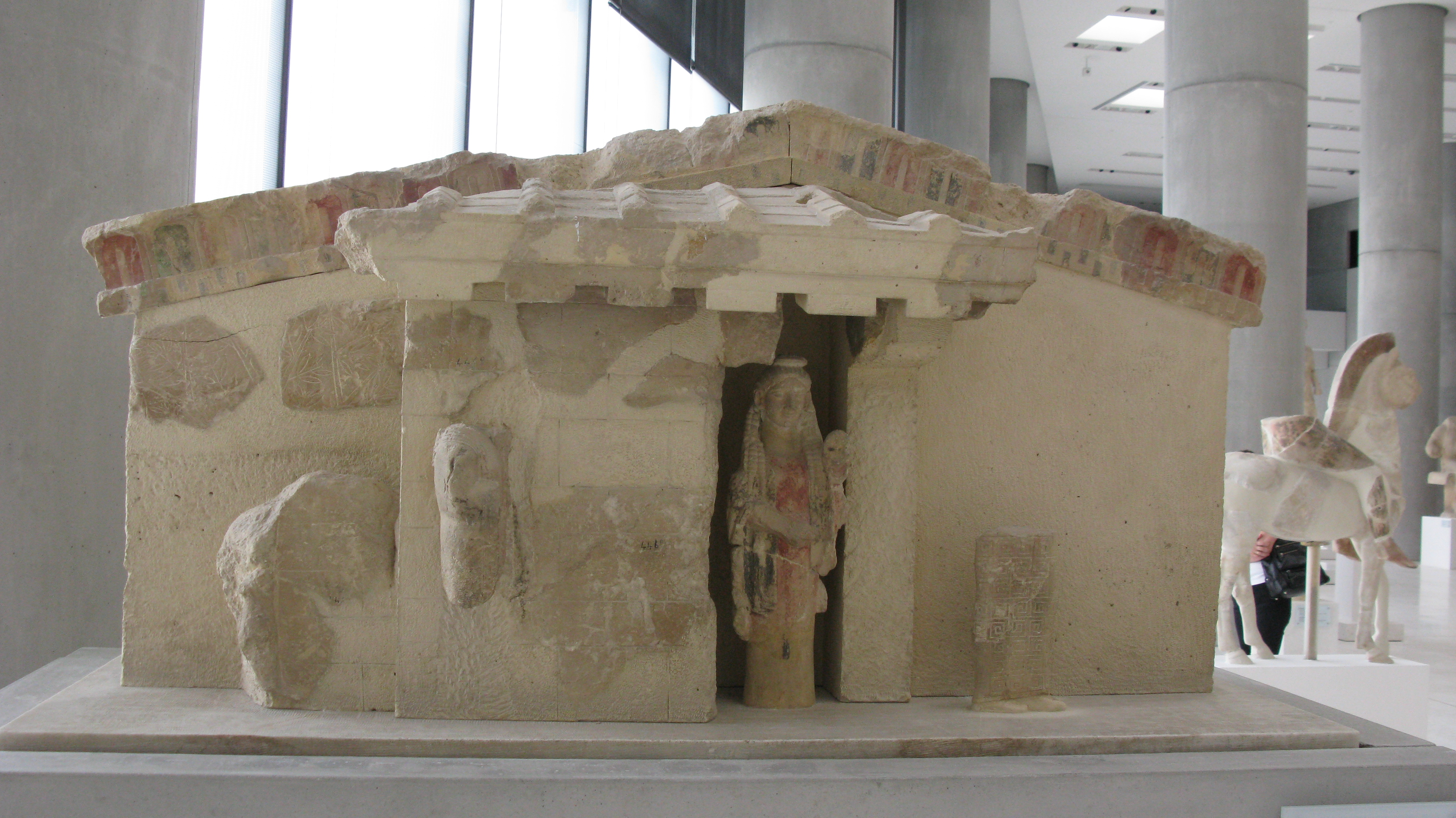 The "Olive Tree" or "Troilus" pediment. The scene is interpreted as the murder of Troilus, son of Priam, by Achiles or as a ritual procession to the sanctuary of goddess Athena.